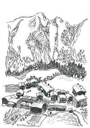 Illustration by Thorbjørn Egner, from his book Gamle hus i Vågå (1943). Please credit the artwork as Drawing: Thorbjørn Egner.